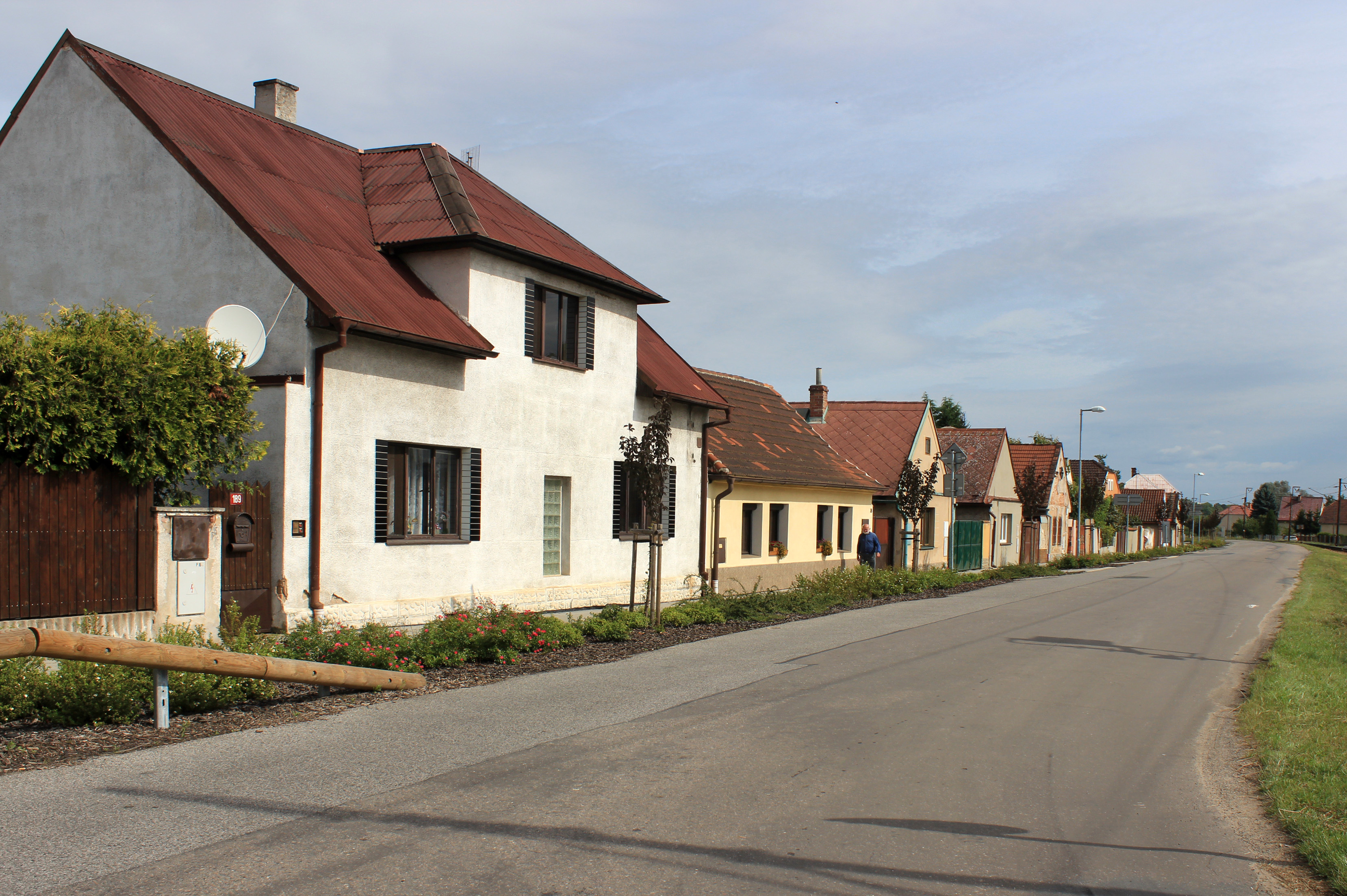 Železniční street - main road in Třebestovice, Czech Republic.